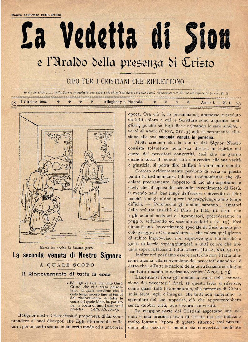 First Watch Tower issue in the Italian languages